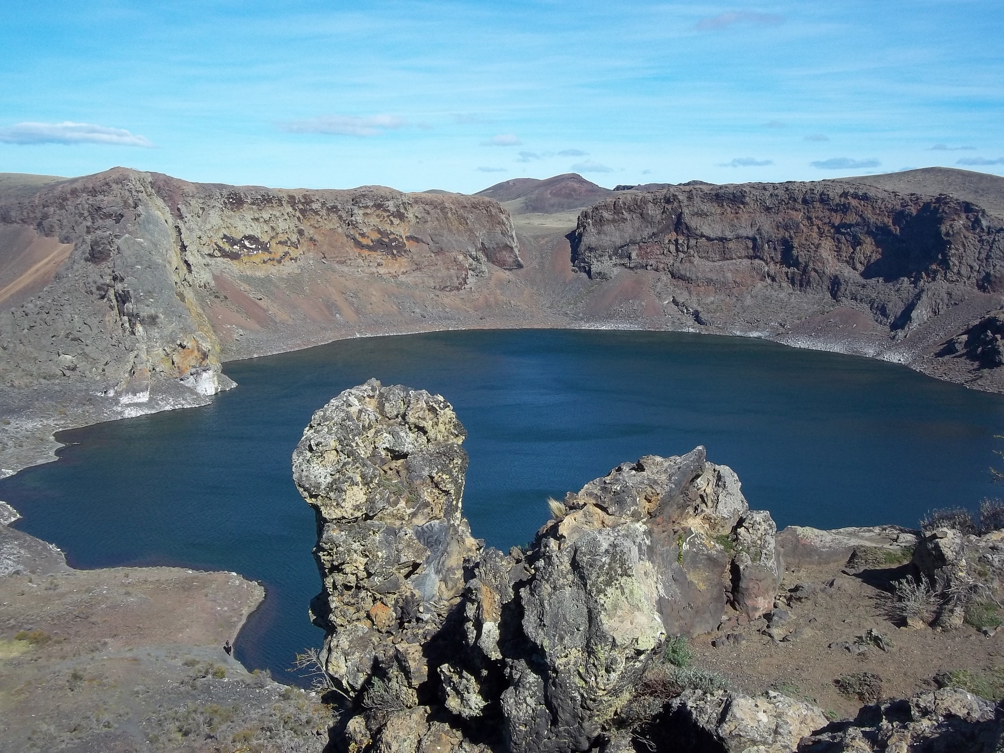 Laguna Azul: Lagoon located in Patagonia (Argentina), inside the crater of an extinct volcano.